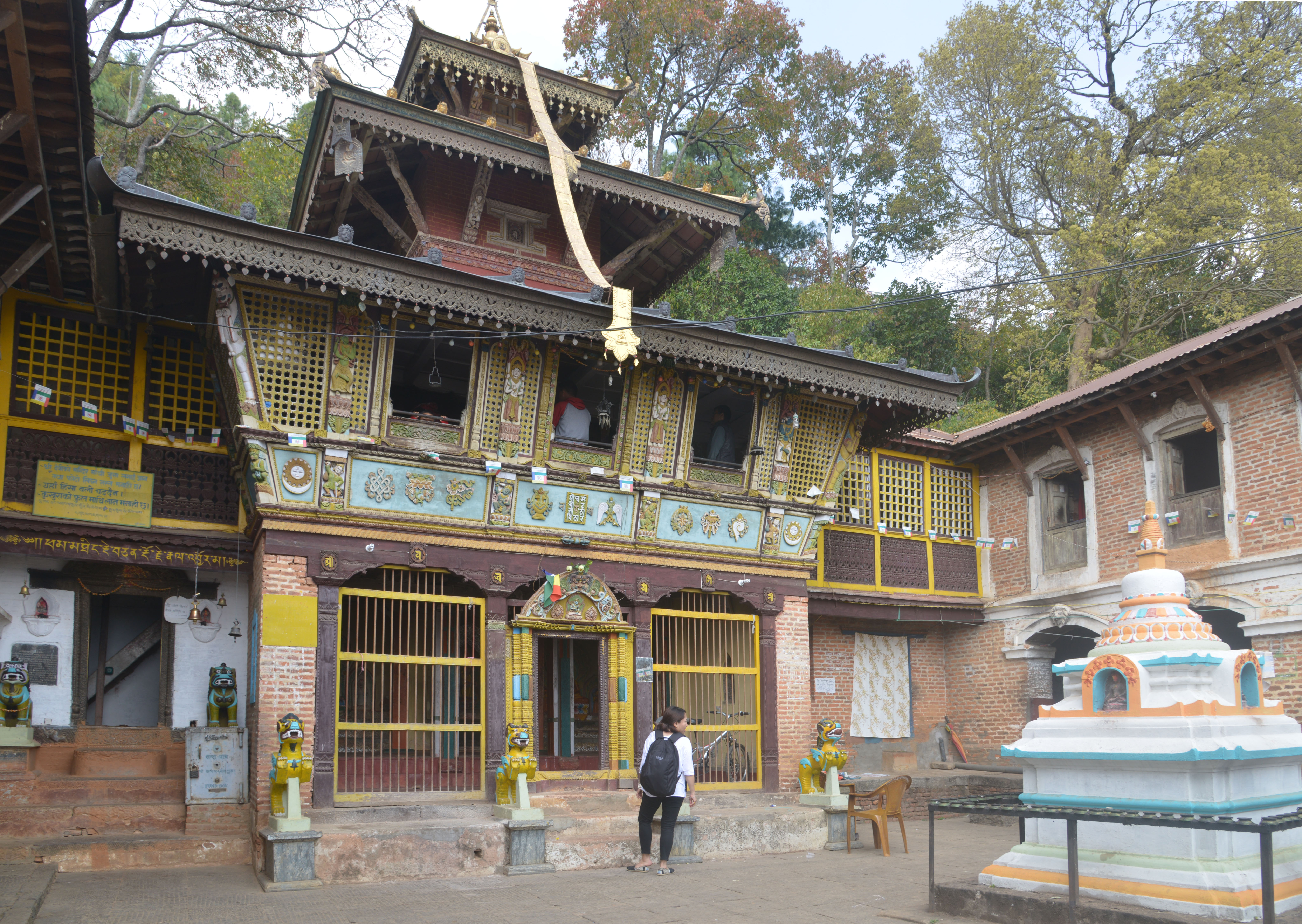 Phamting Vajra Yogini Temple, Pharping, Nepal